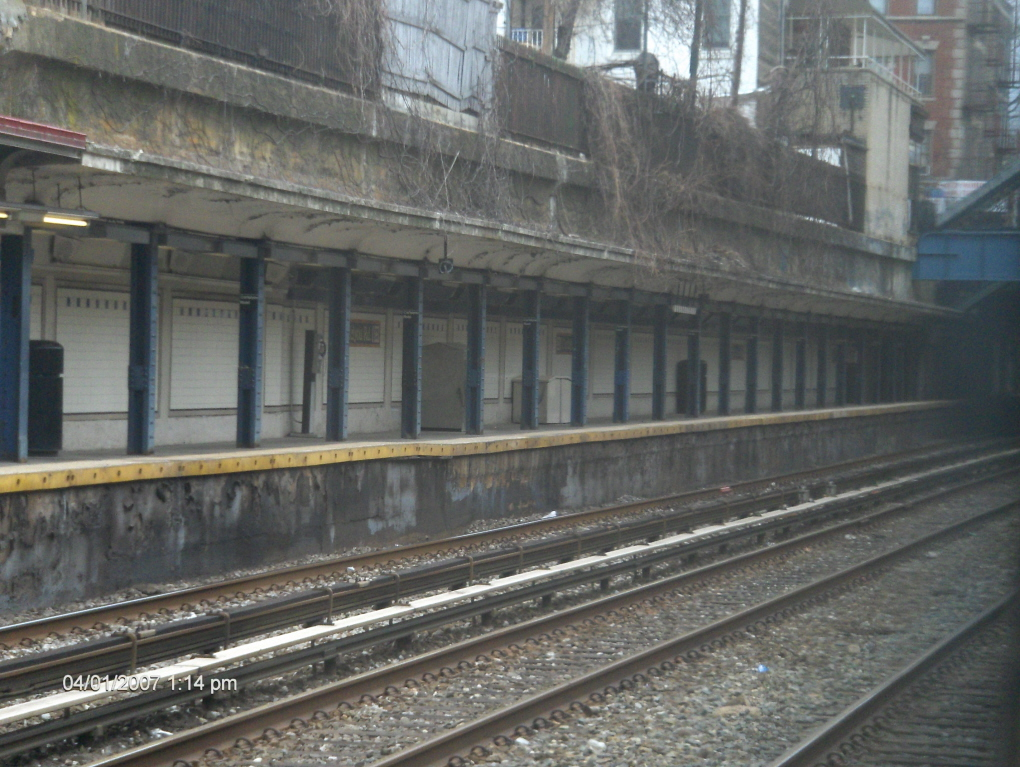 Cortelyou Road on the BMT Brighton line